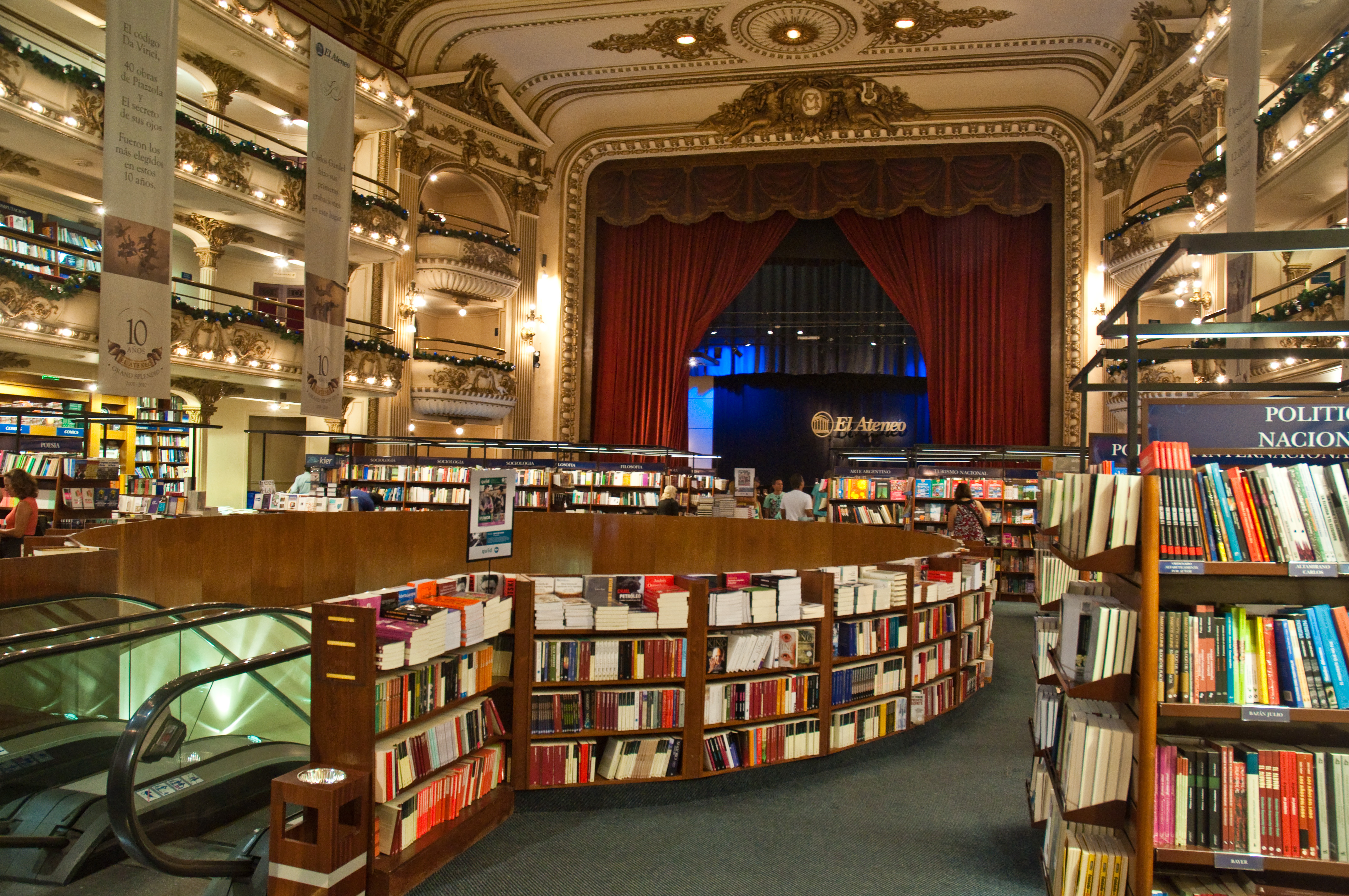 El Ateneto Gran Splendid. A theatre converted into a bookshop. Buenos Aires, Argentina.